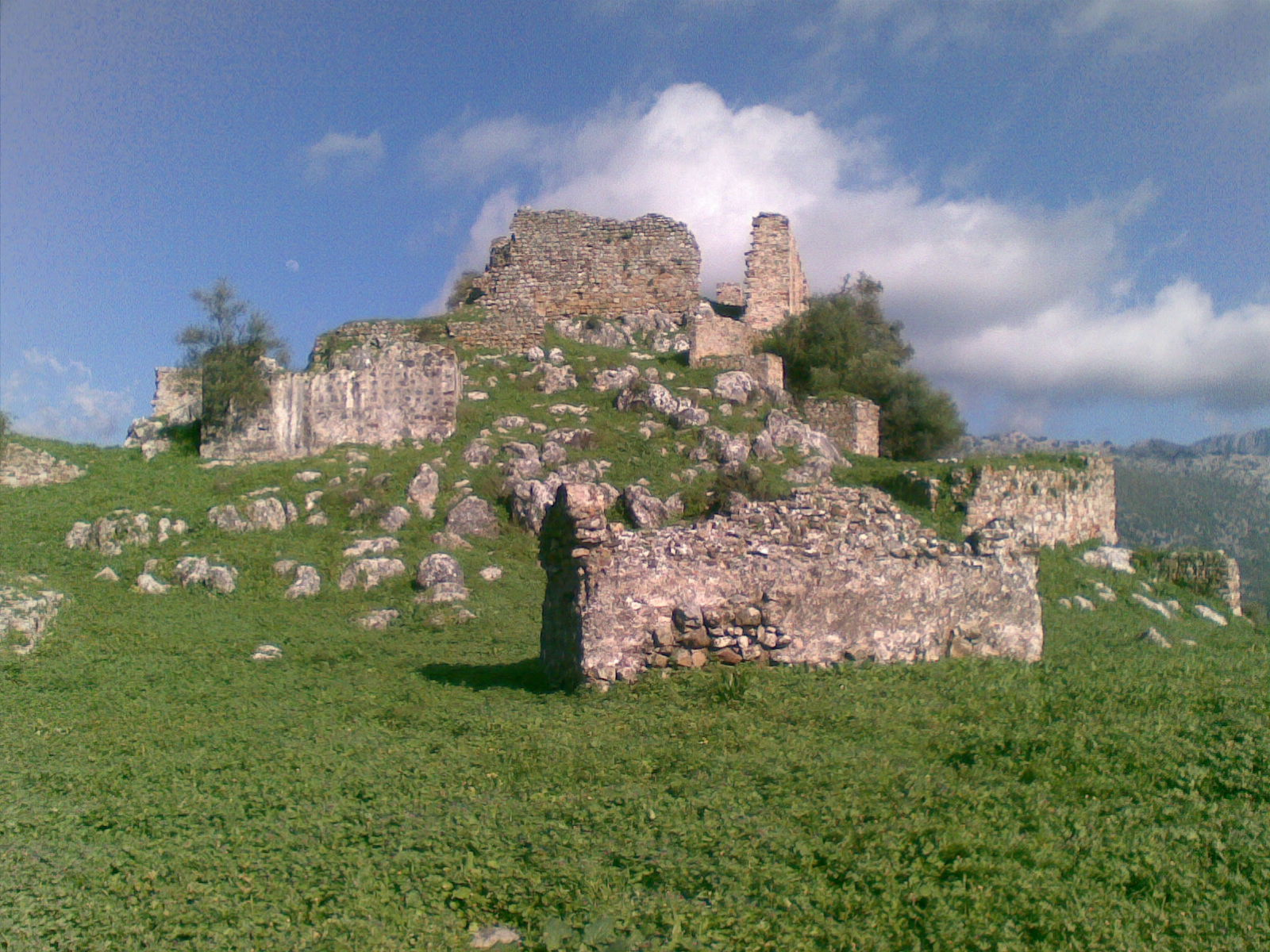 This is an image of the "Castillo de Aznalmara" (Castle of Aznalmara) in Spain.